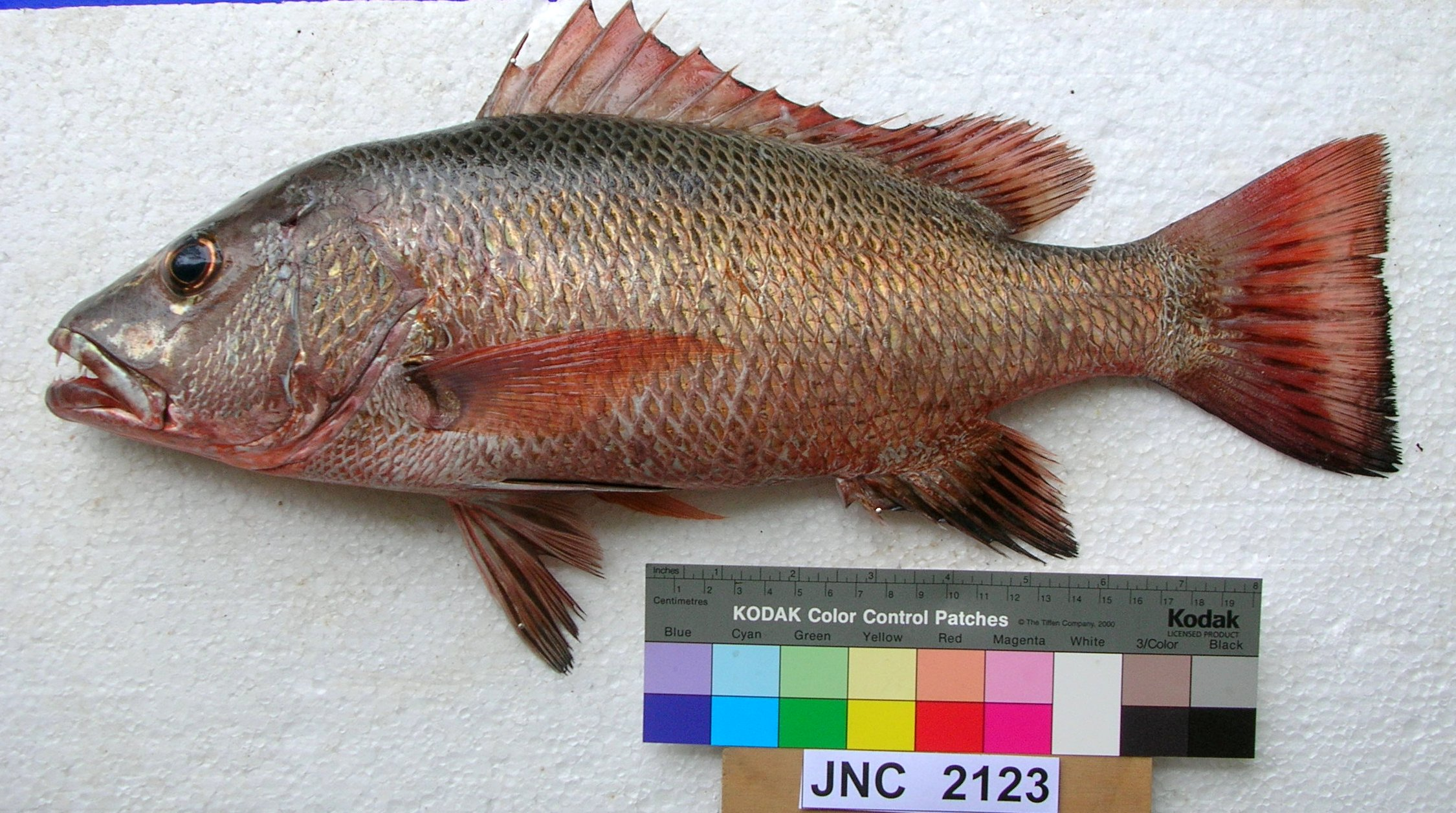 Lutjanus argentimaculatus. Locality: Grande Rade, off Nouméa, New Caledonia. Fork length 445 mm, Weight 1,200 grams, date 5 March 2007.